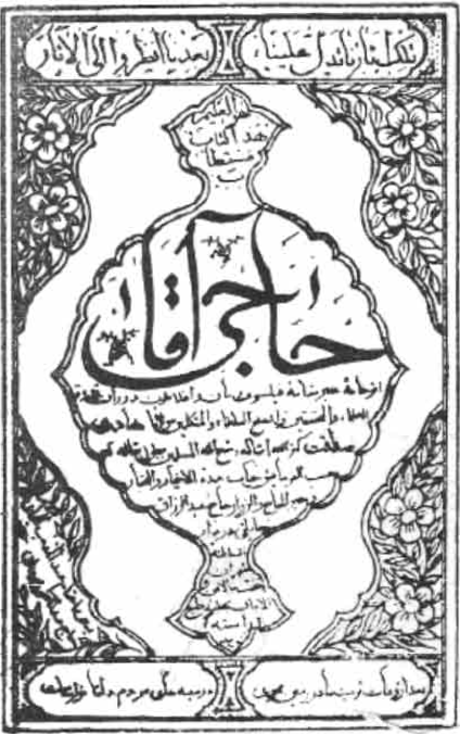 The cover of Haji Agha, a drawing by Sadegh Hedayat